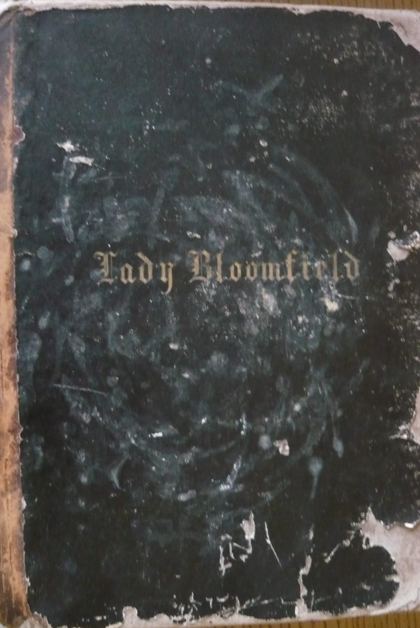 Lady Bloomfield's Piano Album belonged to Georgiana Liddell, Baroness Bloomfield (1822-1905), lady-in-waiting to Queen Victoria. It contains following first (6) and early (15) editions of Frédéric Chopin works: Trois Nouvelles Etudes, Schlesinger 1839; 24 Preludes, F. Lucca, Milan 1839; Scherzo op.31, Breitkopf und Hartel, 1838; 3 Nocturnes op.15 , idem, after 1840; 2 Nocturnes op.37 , Mendrisio chez Pozzi, after 1840; 2 Nocturnes op.62 , Breitkopf und Hartel, 1846; 2 Nocturnes op.27 , idem, 1836; 2 Nocturnes op.55, idem, 1844; 2 Polonaises op.26, idem, 1836; 2 Polonaises op.40, idem, 1840; 3 Valses Brillantes op.34, idem, 1838; 3 Mazurkas op. 50, Mechetti, Viena, 1842; 4 Mazurkas op. 24, Breitkopf und Hartel, 1835; 3 Mazurkas op. 63, idem, 1847; 4 Mazurkas op. 41, idem, 1840; 4 Mazurkas op. 33, Schlesinger, 1838; 5 Mazurkas op. 7, Kistner, 1833; and 3 period Russian editions of Impromptu op. 29, 3 Valses op.64, Mazurka op.6 No 1 and Mazurka op.7 No 1. Discovered in 2000's , currently in a private collection. source: Jozef Kapustka - "Chopin i Lady Bloomfield"